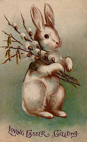 Easter postcard circa early 20th century